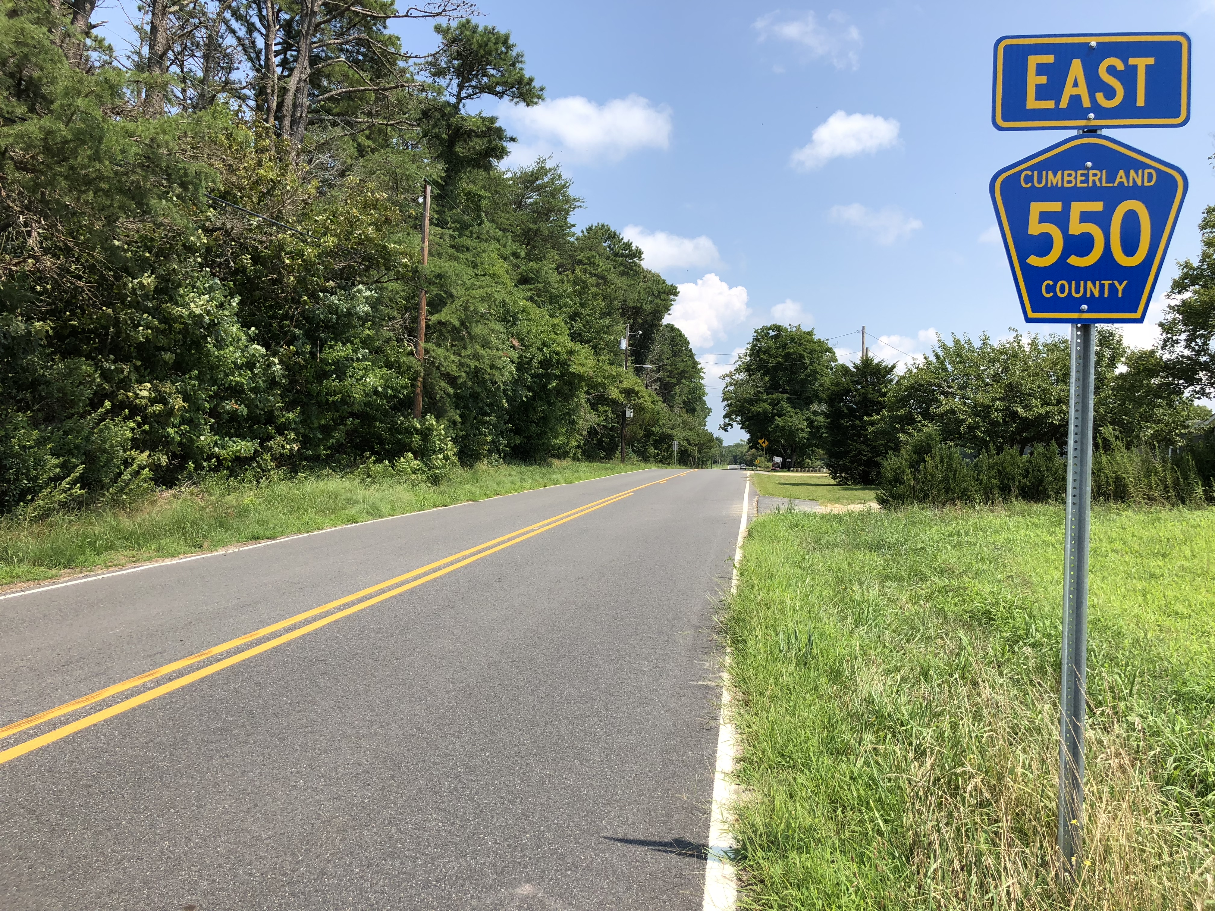 View east along Cumberland County Route 550 (Leesburg-Belleplain Road) just east of New Jersey State Route 47 (Delsea Drive) in Maurice River Township, Cumberland County, New Jersey